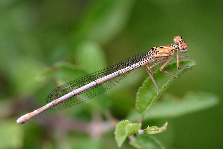 A female White-legged Damselfly